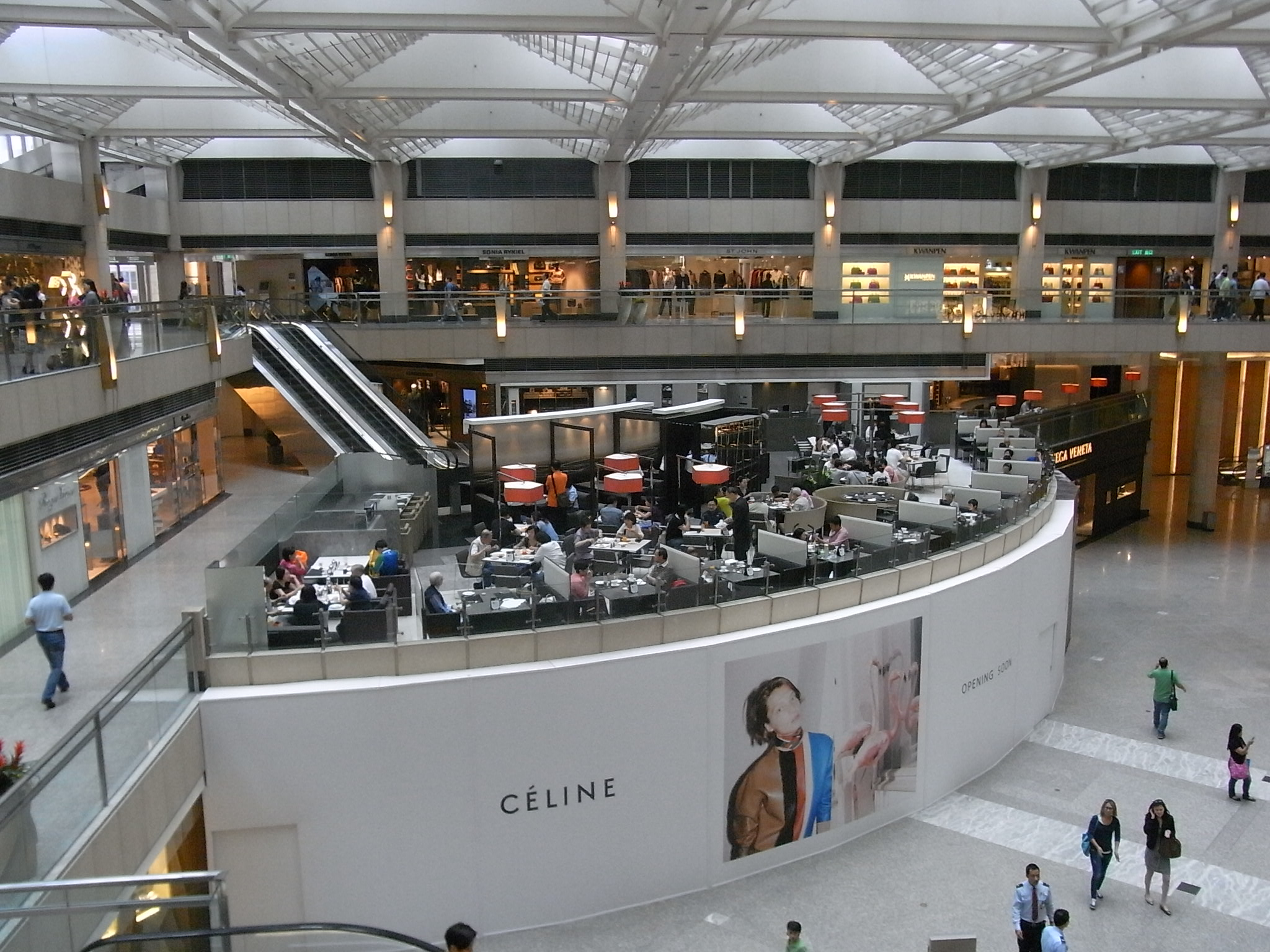 Cafe Landmark, Central, Hong Kong